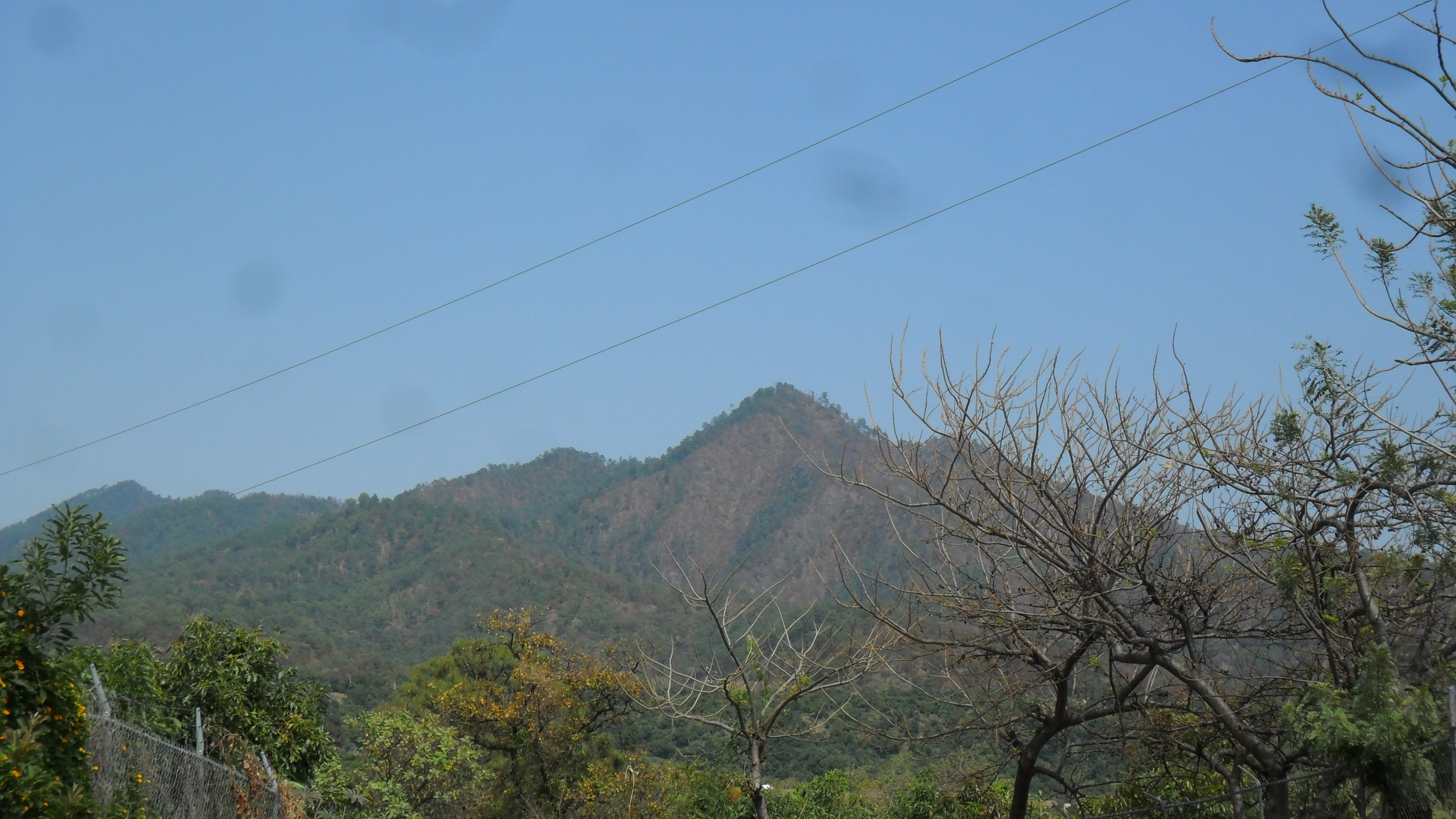 Panoramica del cerro de los tre